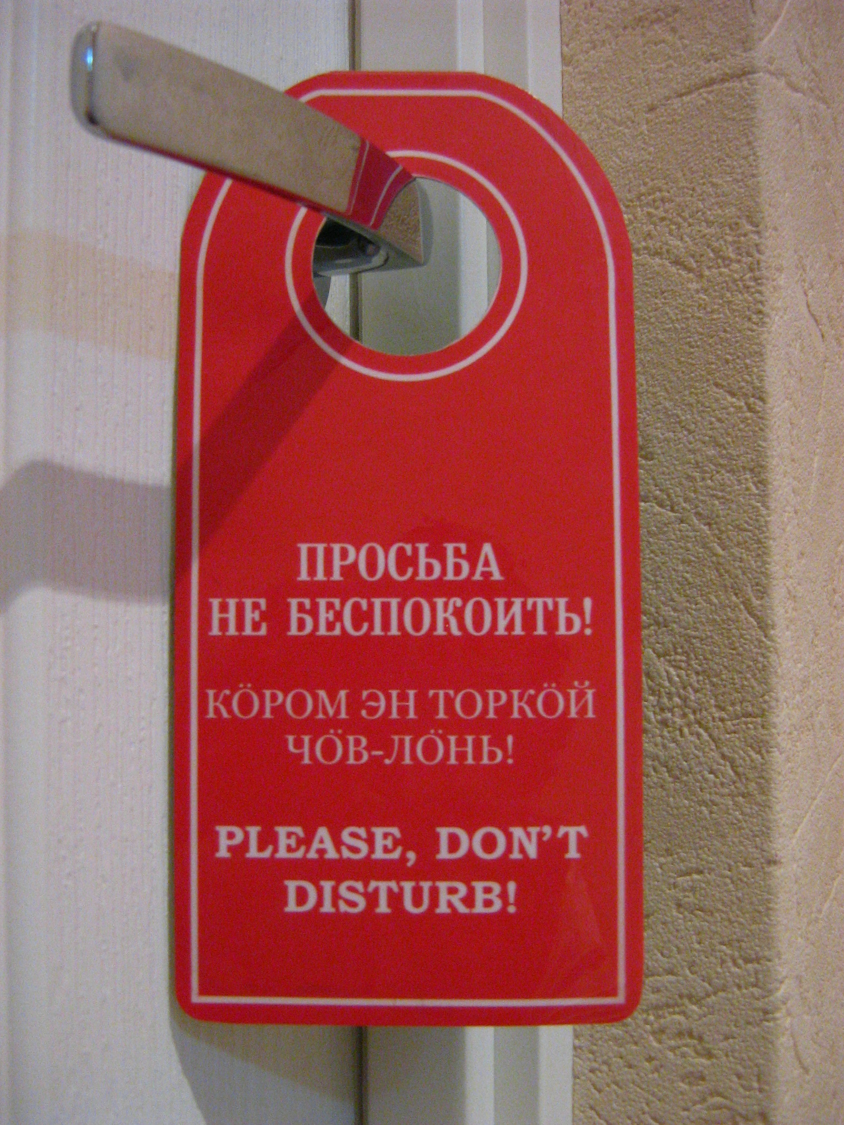 Three-lingual sign in a hotel in Ukhta, Komi Republic